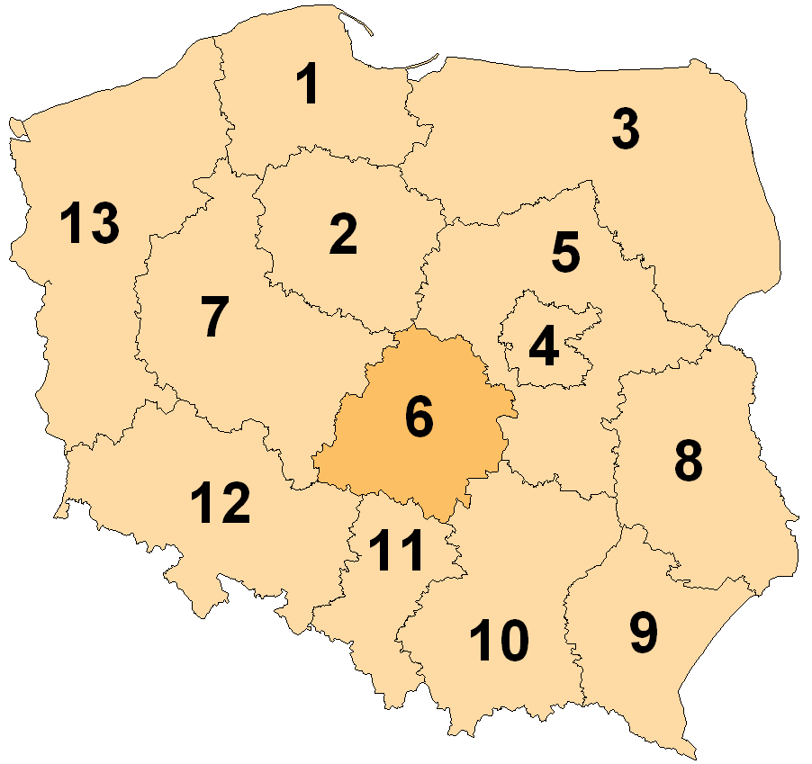 Łódź (European Parliament constituency) - European Parliament constituencie in Poland